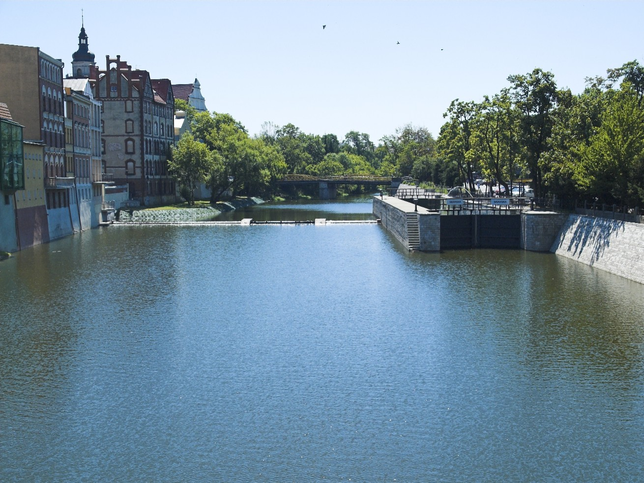 The Młynówka channel in Opole, Poland